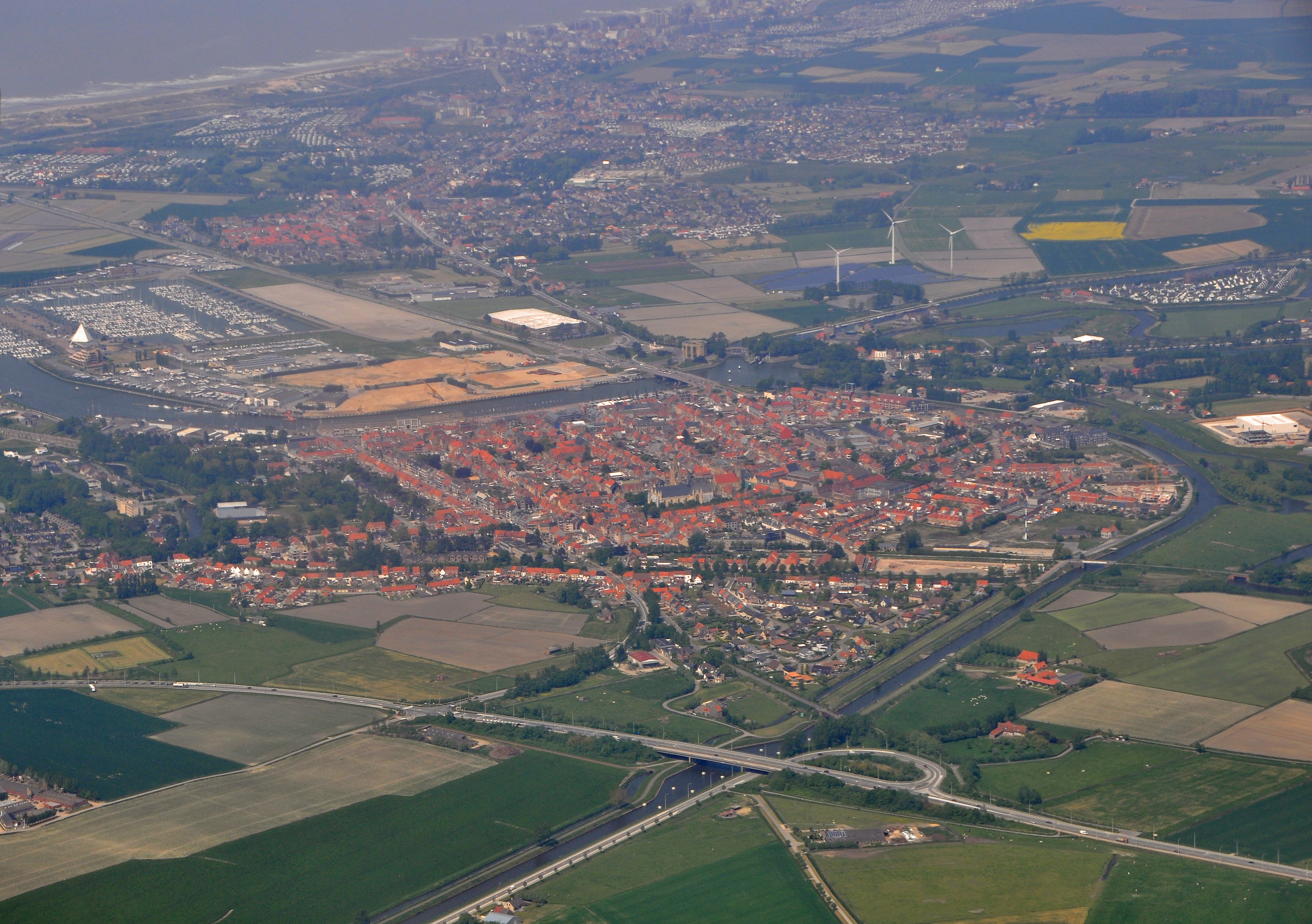 Nieuwpoort (Belgium): aerial view